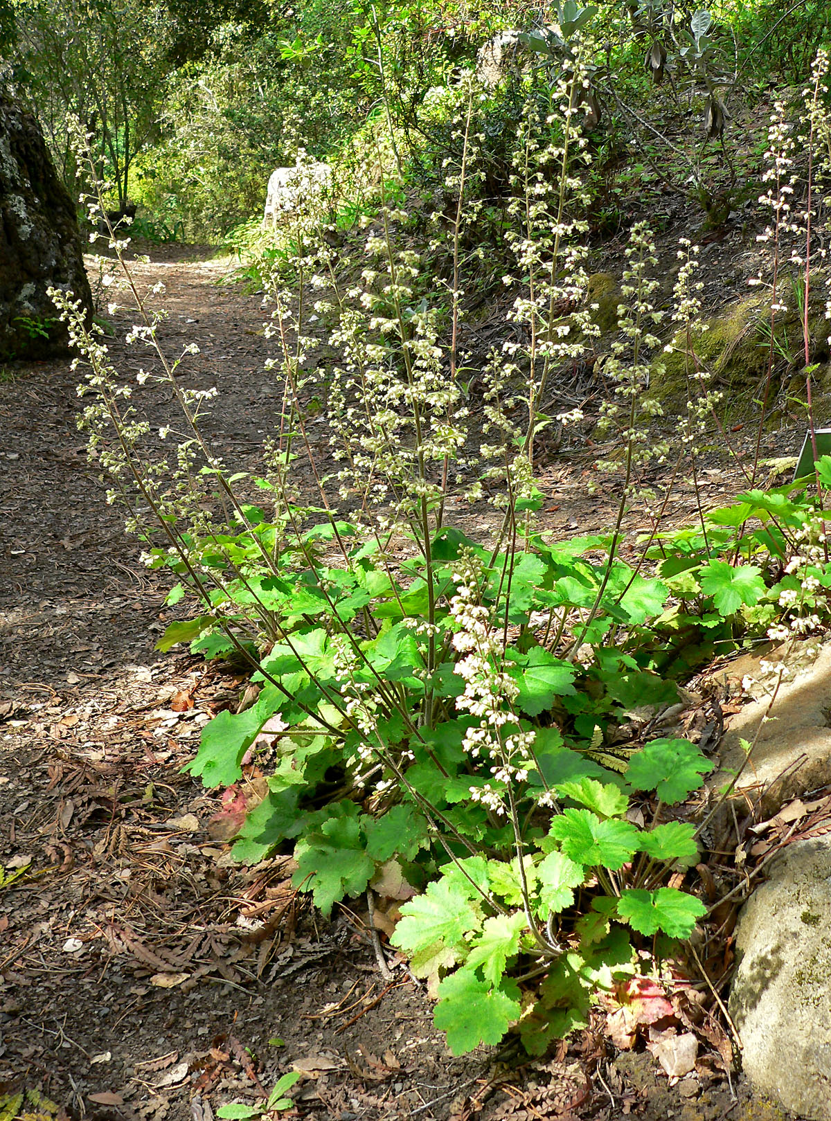 Photo of Heuchera maxima at the Regional Parks Botanic Garden, Berkeley, California